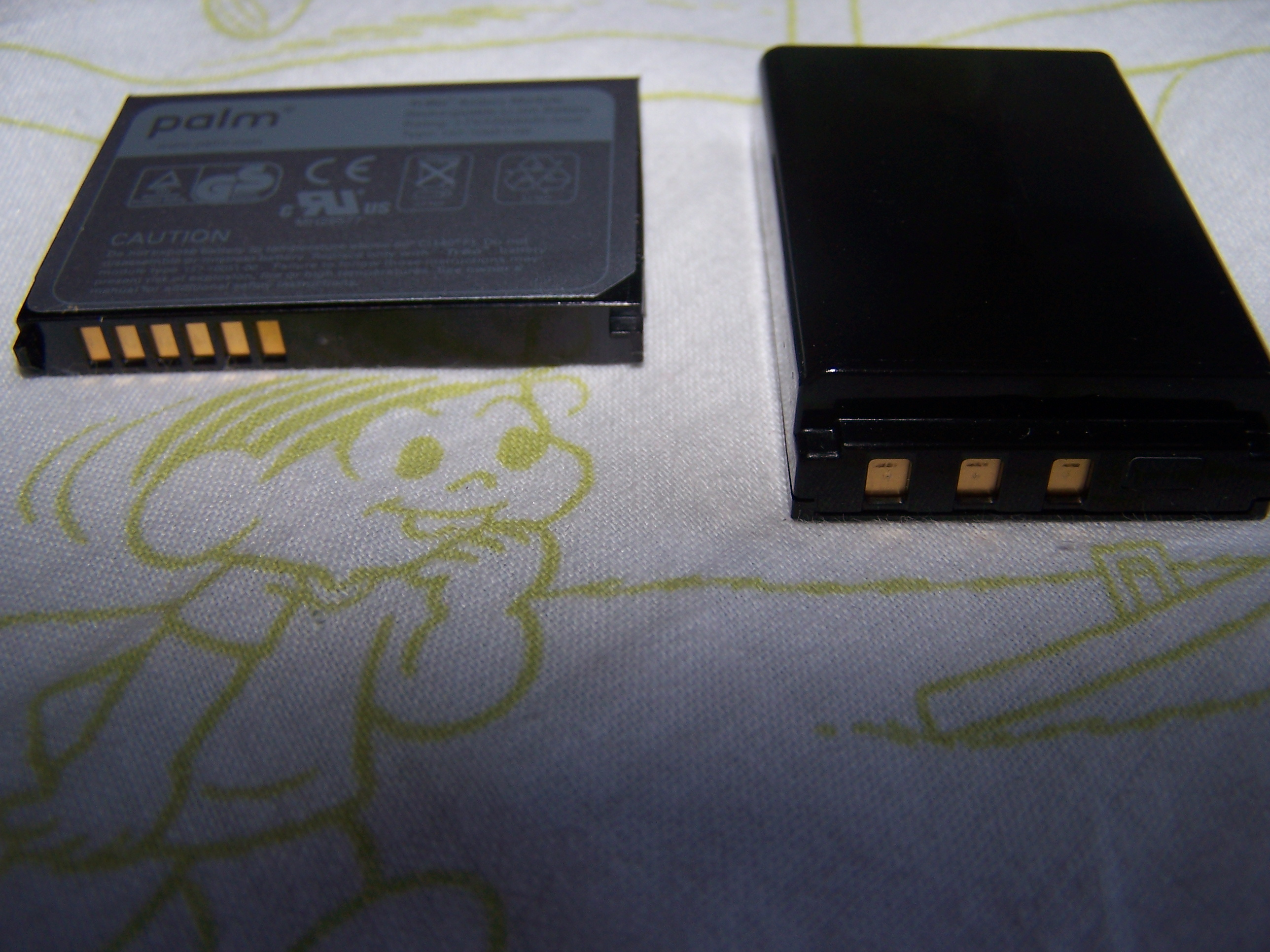 Lithium-ion batteries